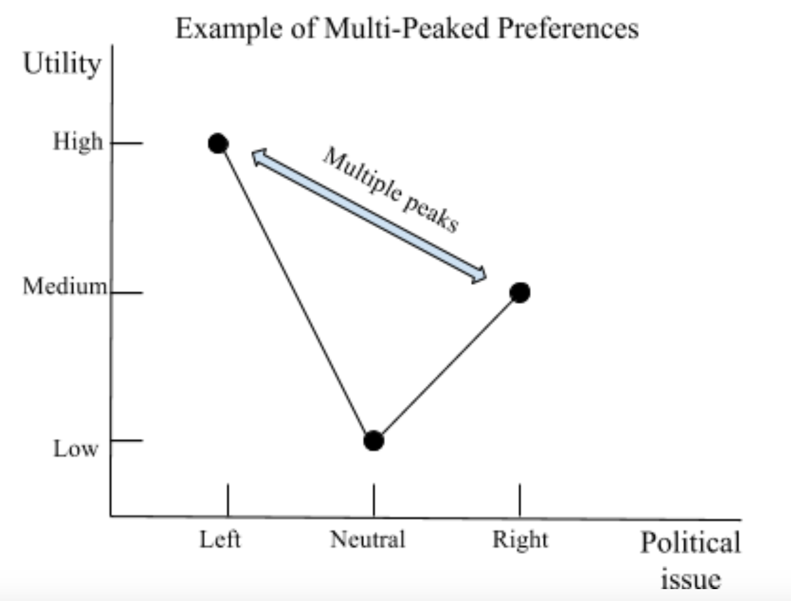 Example of Multi-Peaked Preferences